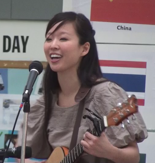 Esther Ku playing at the Asian Heritage celebration in New York at LaGuardia Community College